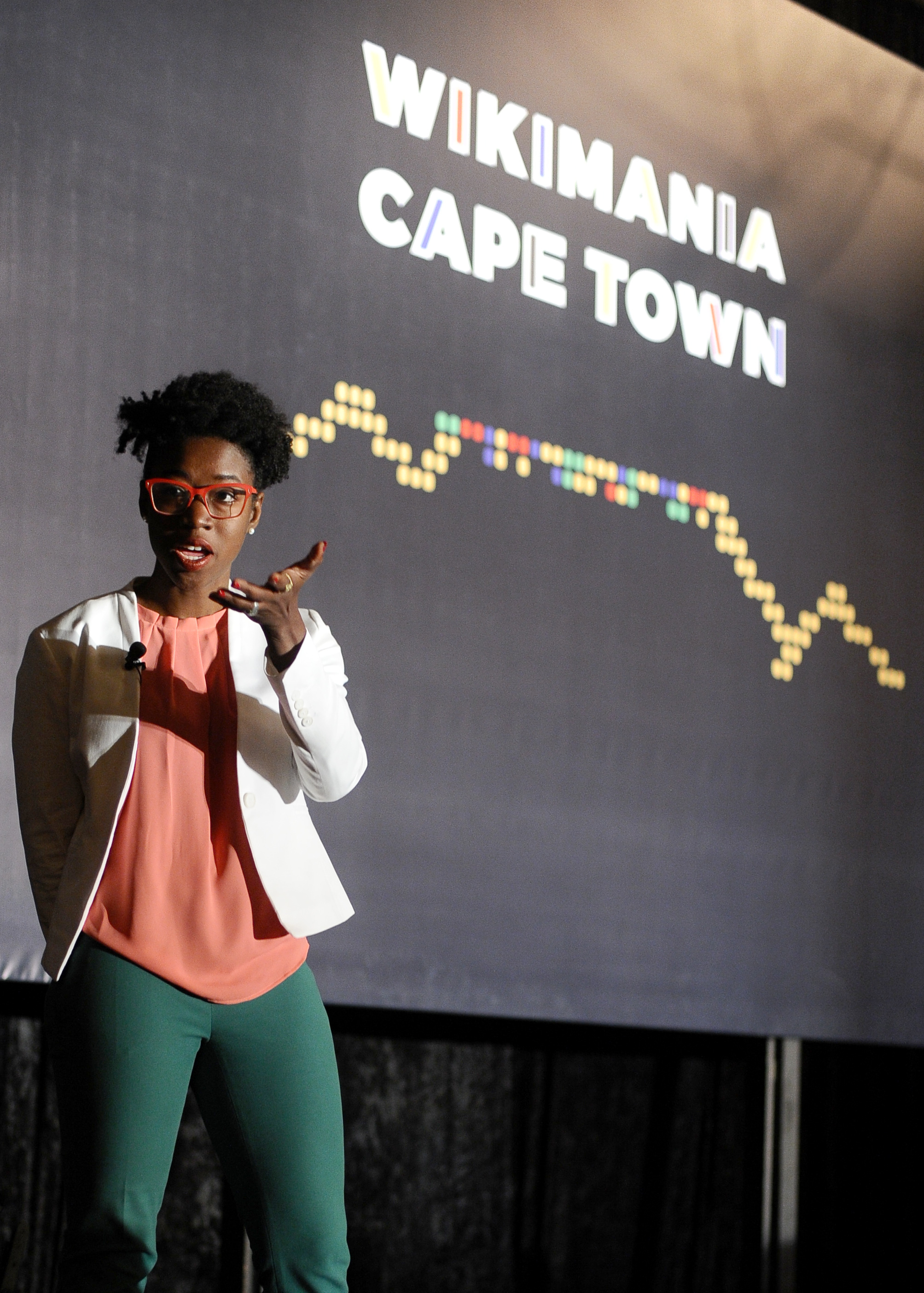 Joy Buolamwini at Wikimania 2018 in Cape Town, South Africa.